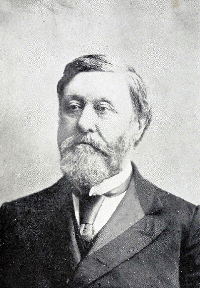 A portrait of Hon. Thomas H. Nelson in Terre Haute, Indiana. Taken from the book Art souvenir of representative men, public buildings, private residences, business houses, and points of interest in Terre Haute, Ind. (1894), published by the Kelly Brothers. Original caption says, "From photo by BIEL. Hon. Thomas H. Nelson, Ex U.S. Envoy to Chili [sic], U.S. Envoy to Mexico, etc."